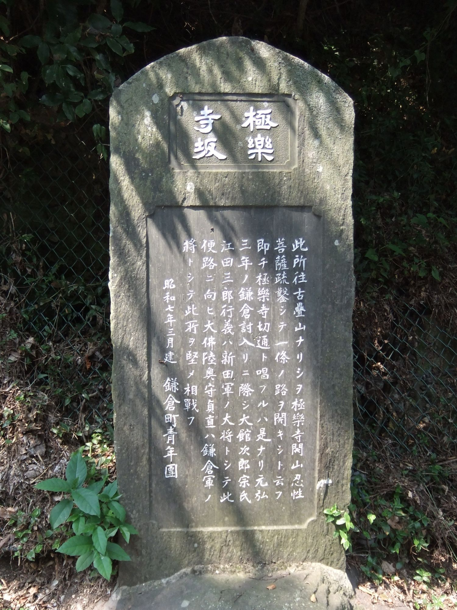 Stele at Gokurakuji-zaka Pass in Kamakura, Kanagawa.